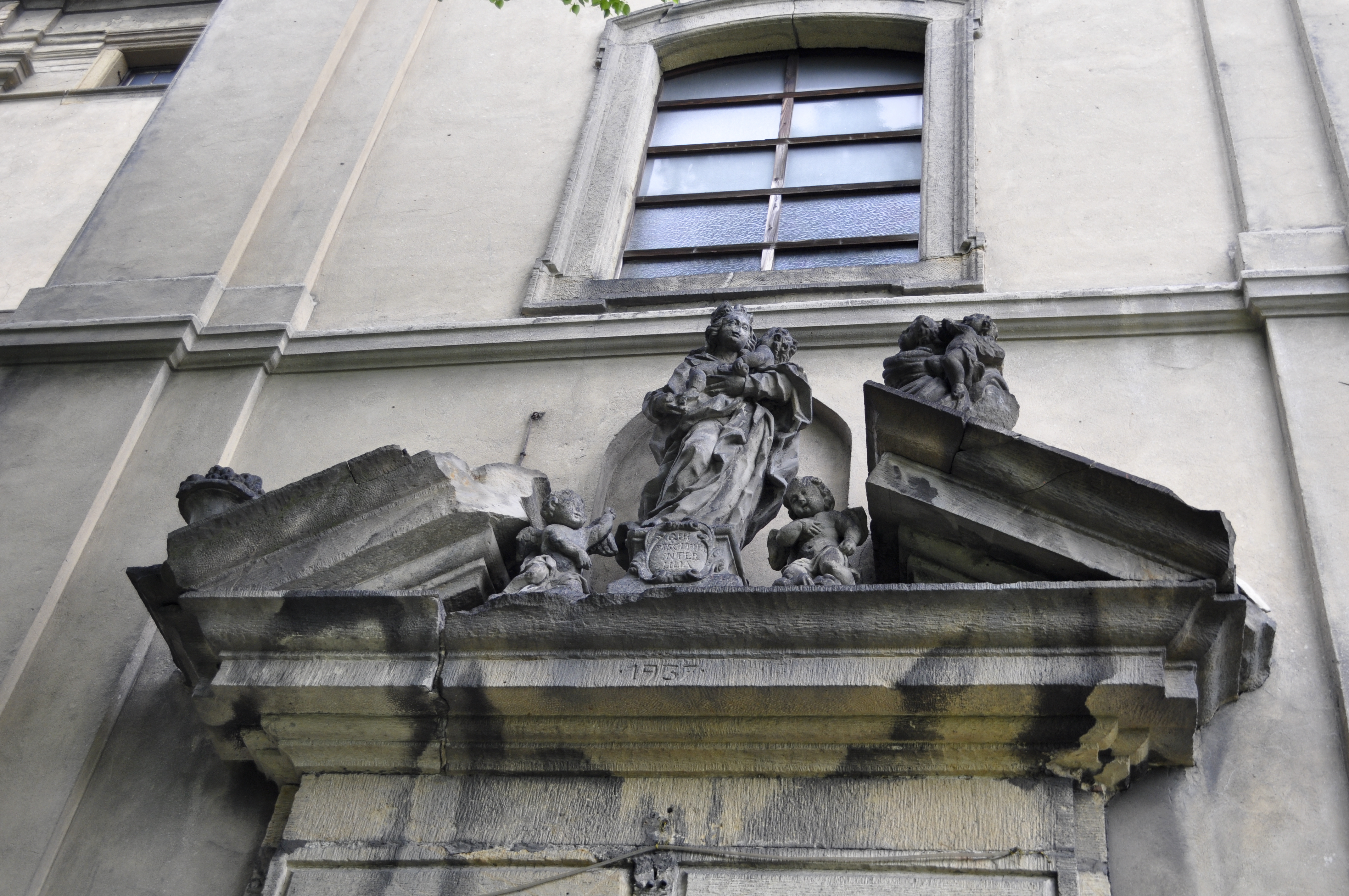 Horní Jiřetín, Assumption church